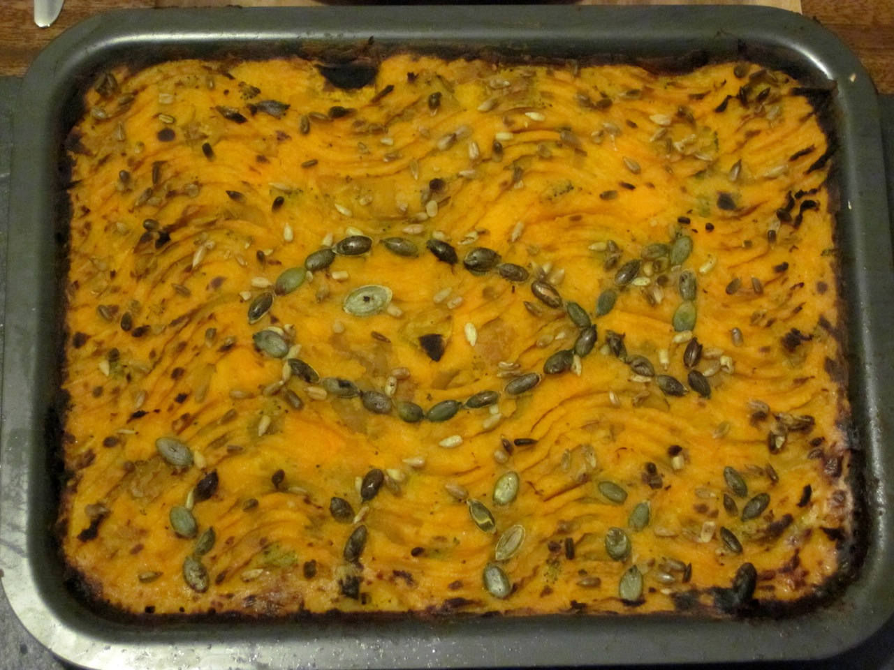 Fish Pie with Sweet Potato Topping